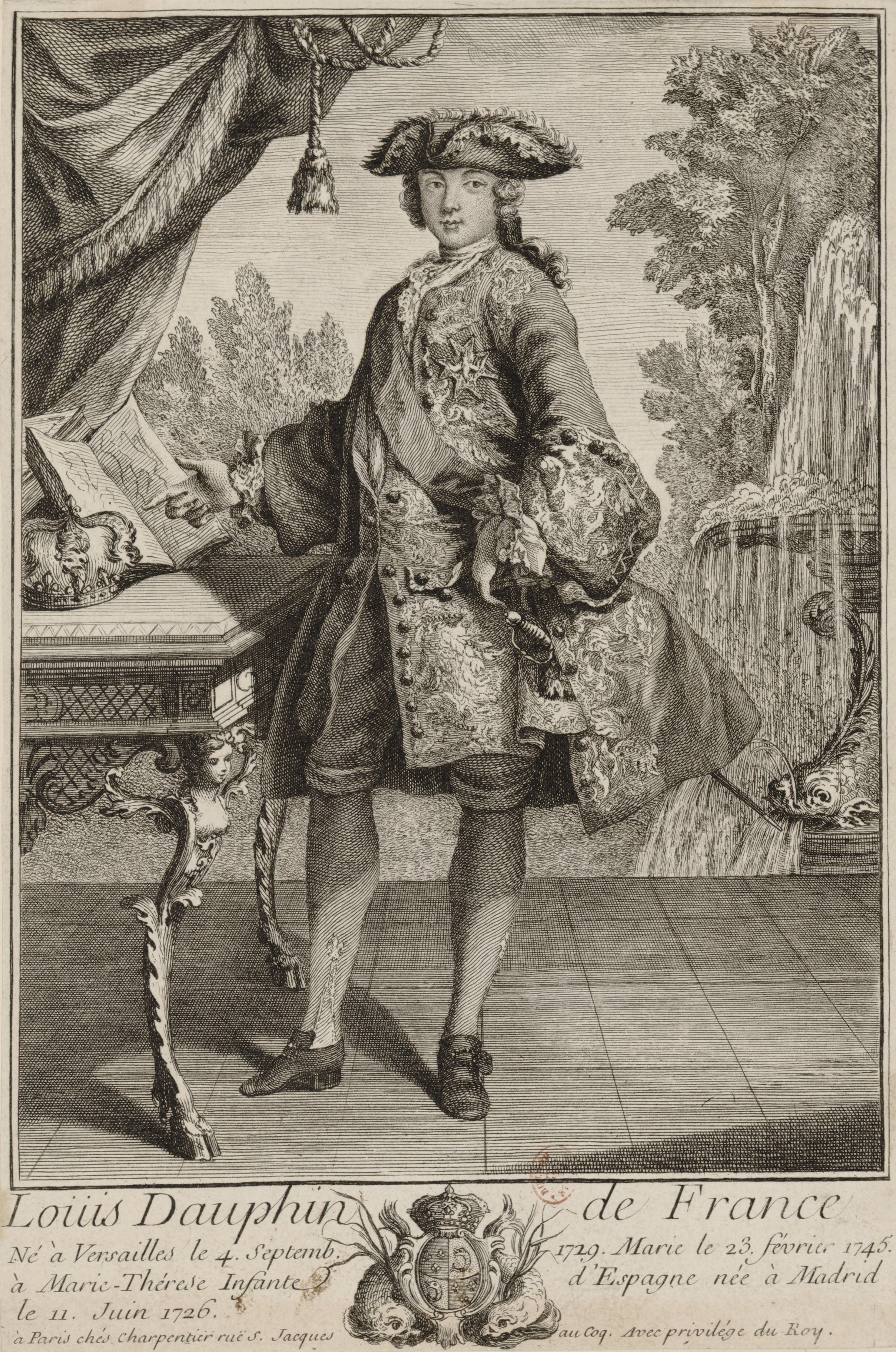 Engraved portrait of Louis, Dauphin of France (1729–1765)